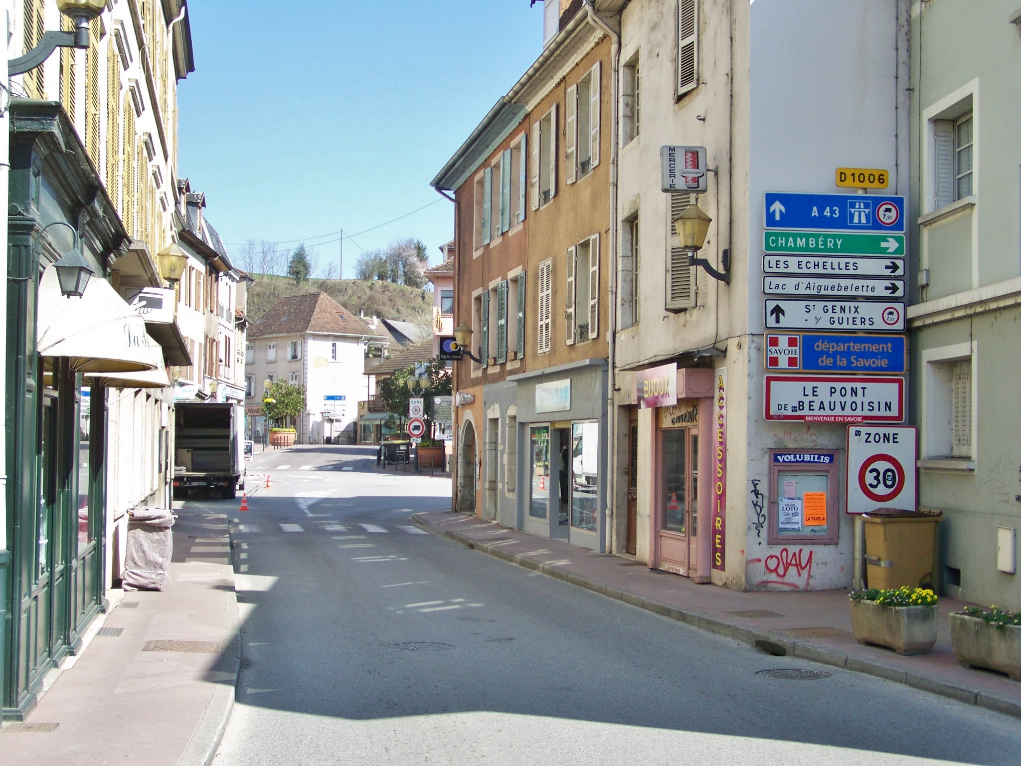 Welcoming roadsigns to French department of Savoie and commune of Le Pont-de-Beauvoisin, after crossing the river Guiers.